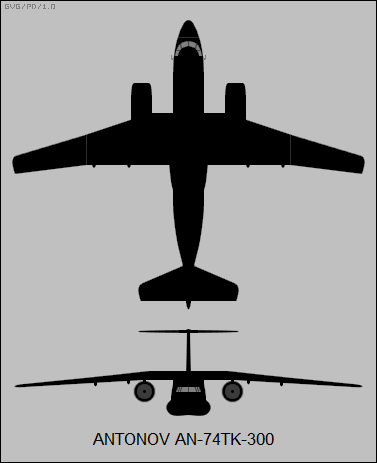 2-view silhouette of the Antonov An-74TK-300